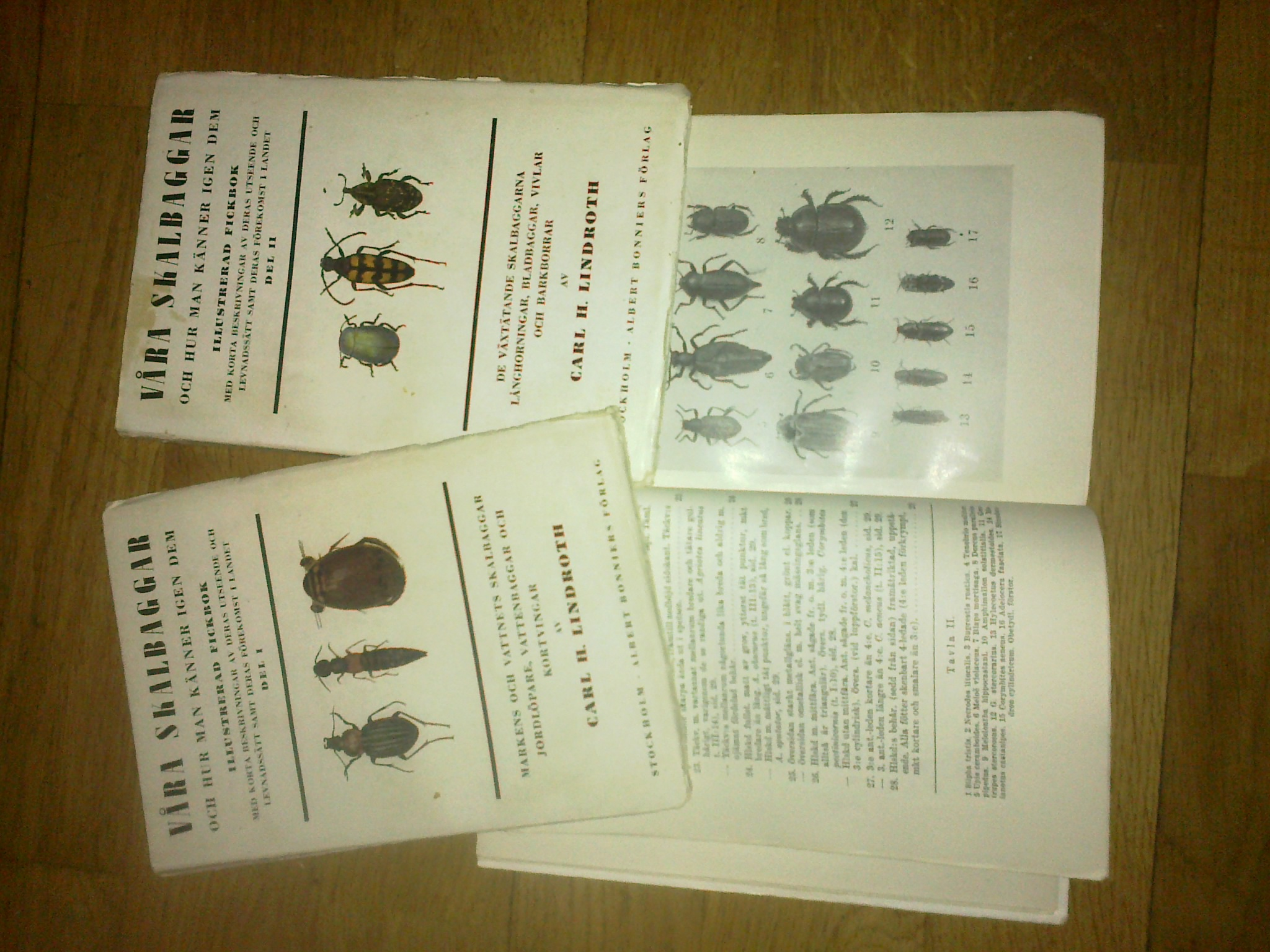 Photo of the covers of the second edition (1945) of part one and two of C.H. Lindrotht's "Våra skalbaggar" and a "random" foldout of part three.